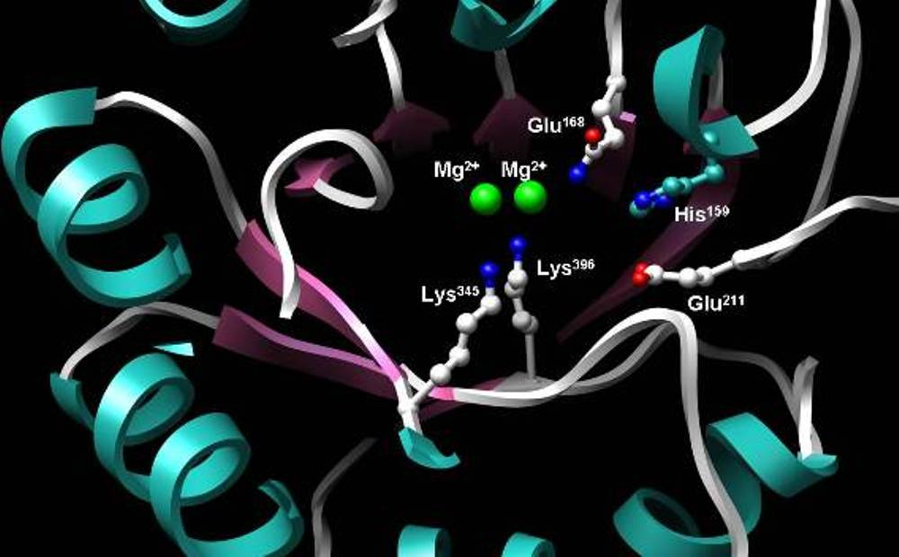 Tram Nguyen & Katelyn Thompson; used UCSF Chimera to visualize the active site of enolase active site (PDB 1ONE)